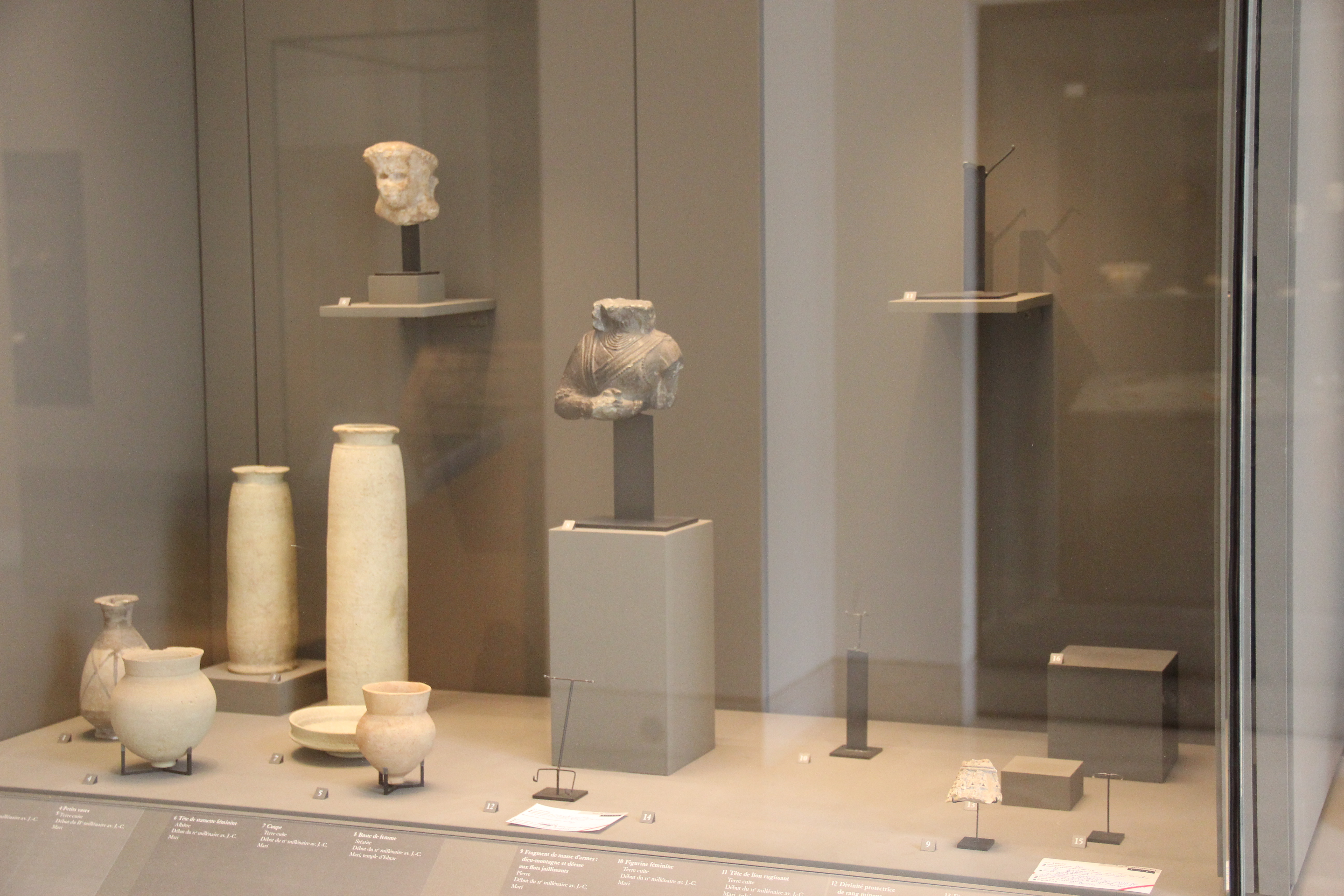 Artifacts from Amorite Kingdom of Mari, 1st Half of 2nd Mill. BC Ancient Near East Gallery, Louvre Museum, Paris, France. Complete indexed photo collection at .